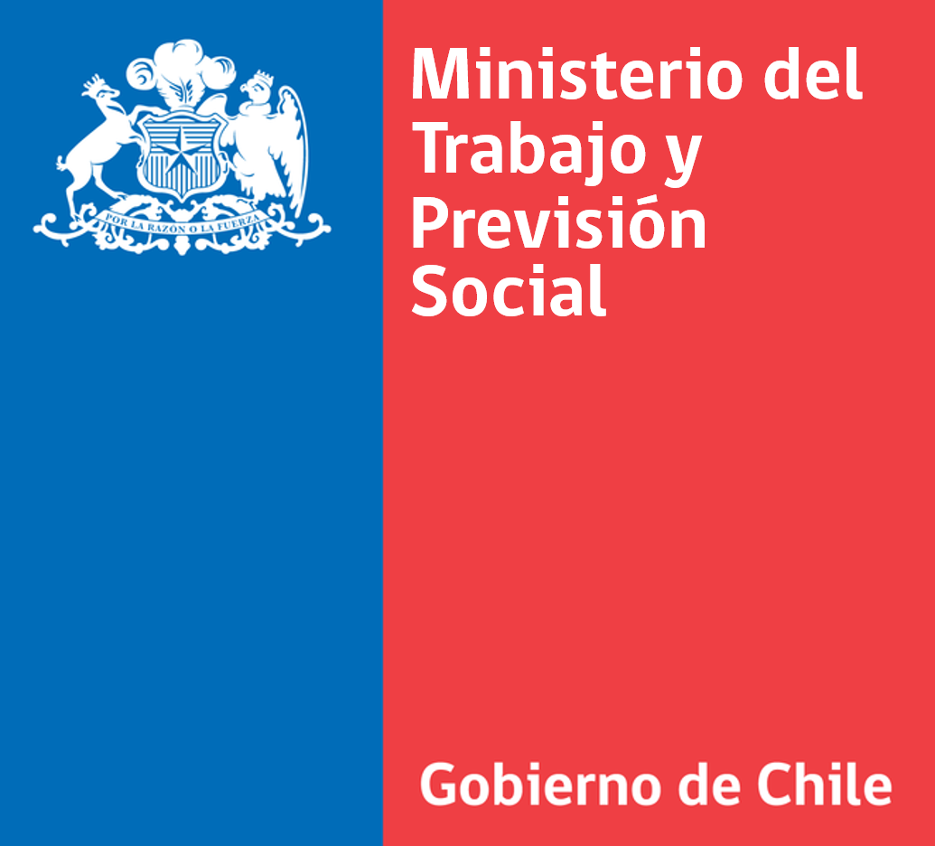 Logo of the Ministry of Labor and Social Security of Chile